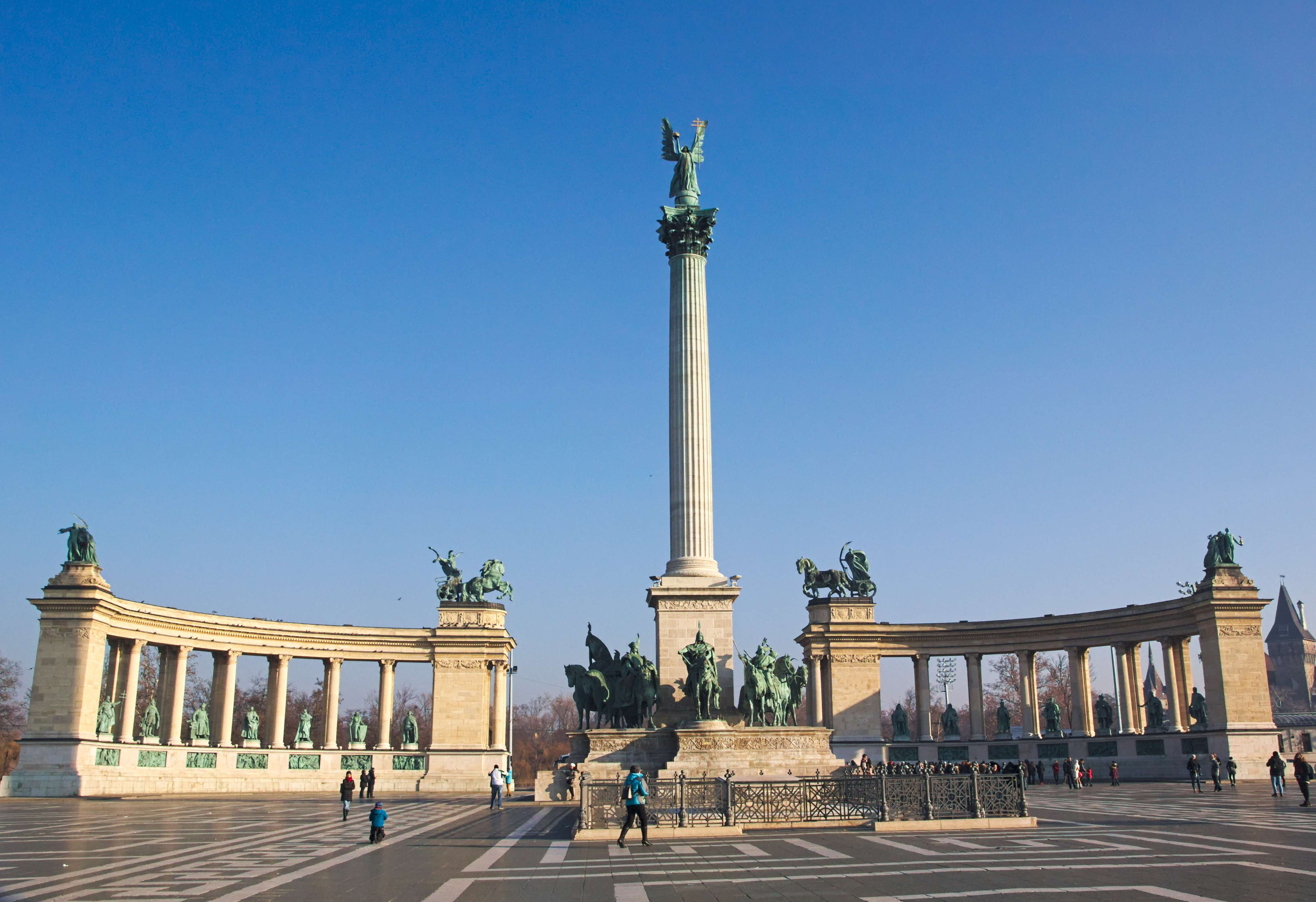 Millennium Monument at the Heroesp Square in Budapest, Hungary.